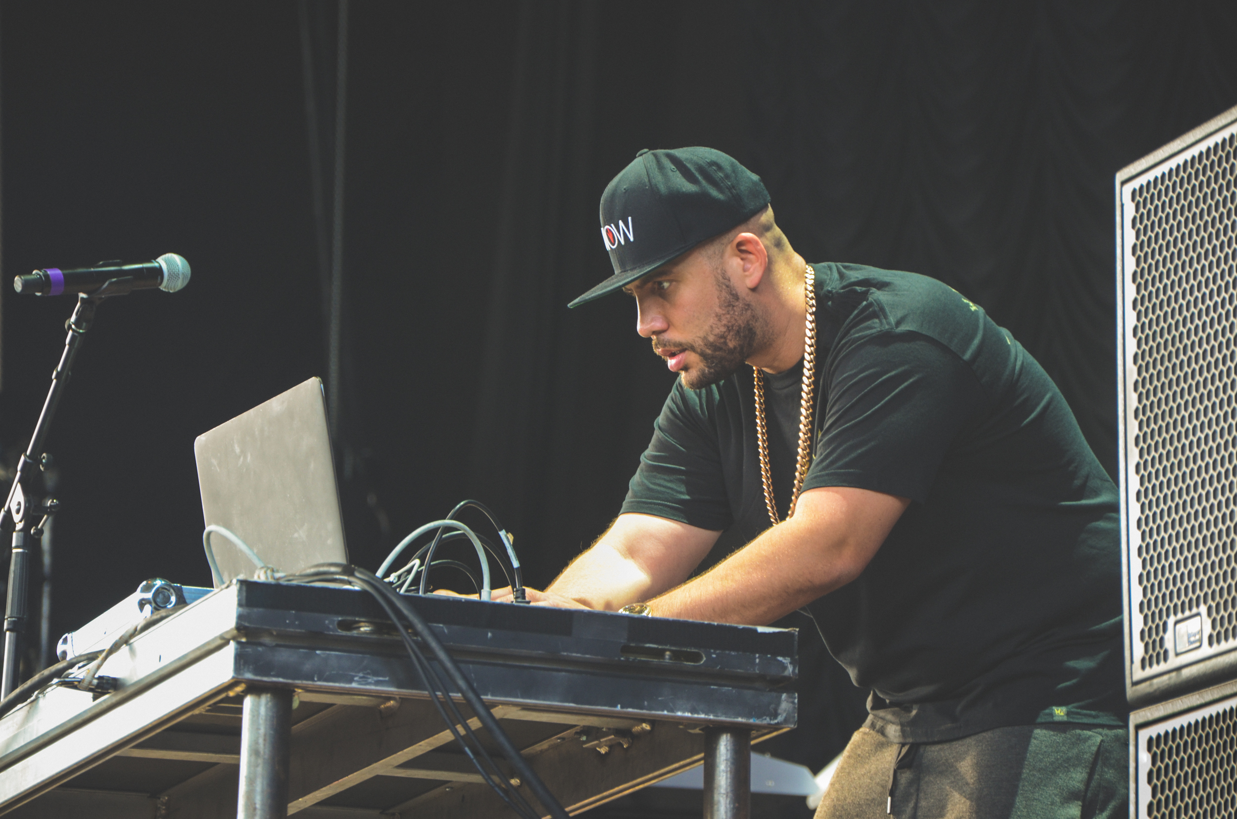 The High Road Summer Tour 2016 at the Molson Canadian Amphitheatre featuring Snoop Dogg, Wiz Khalifa, Jhené Aiko, Casey Veggies and Dj Drama. Photography by Charito Yap